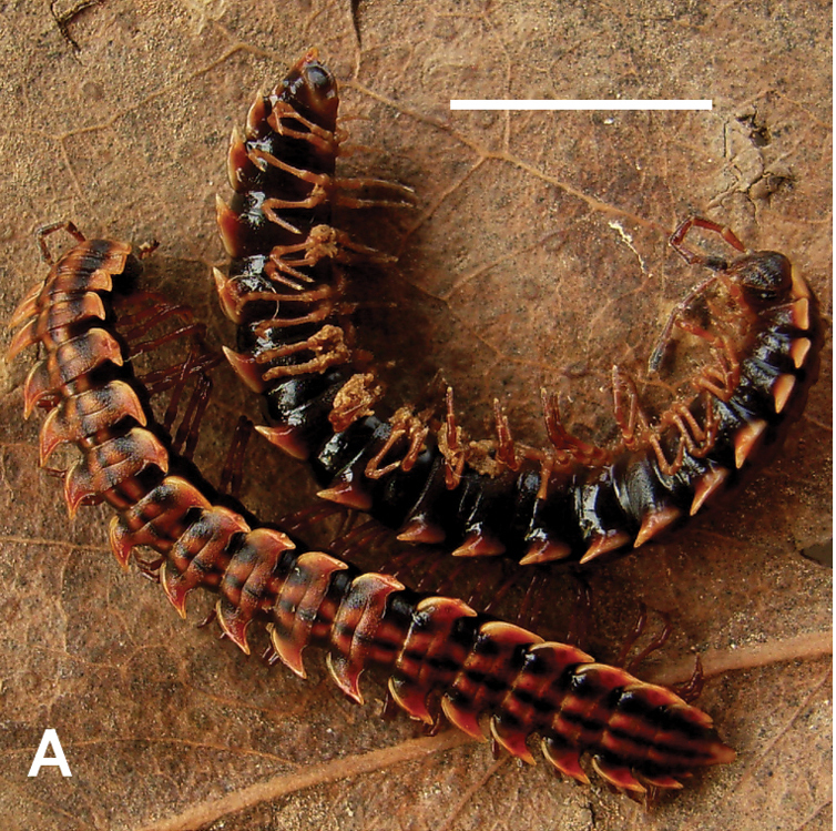 Brochopeltis mjoebergi Verhoeff, 1924. Female (top) and male (bottom) Scale bar: 10 mm